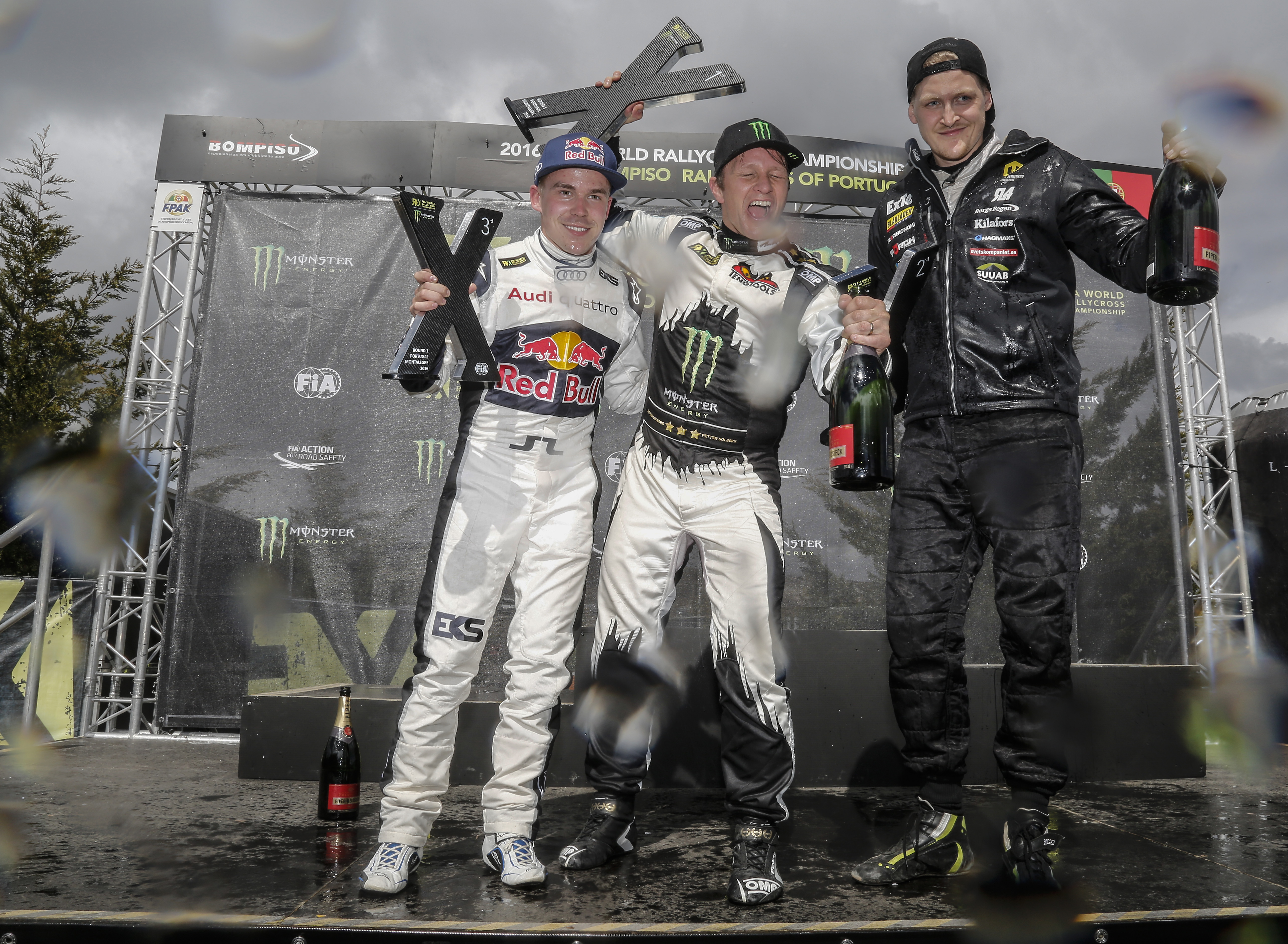 2016 FIA World Rallycross Championship // Round 01 // Montalegre, Portugal // 15-17 April, 2016 // Worldwide Copyright: EKS/McKlein